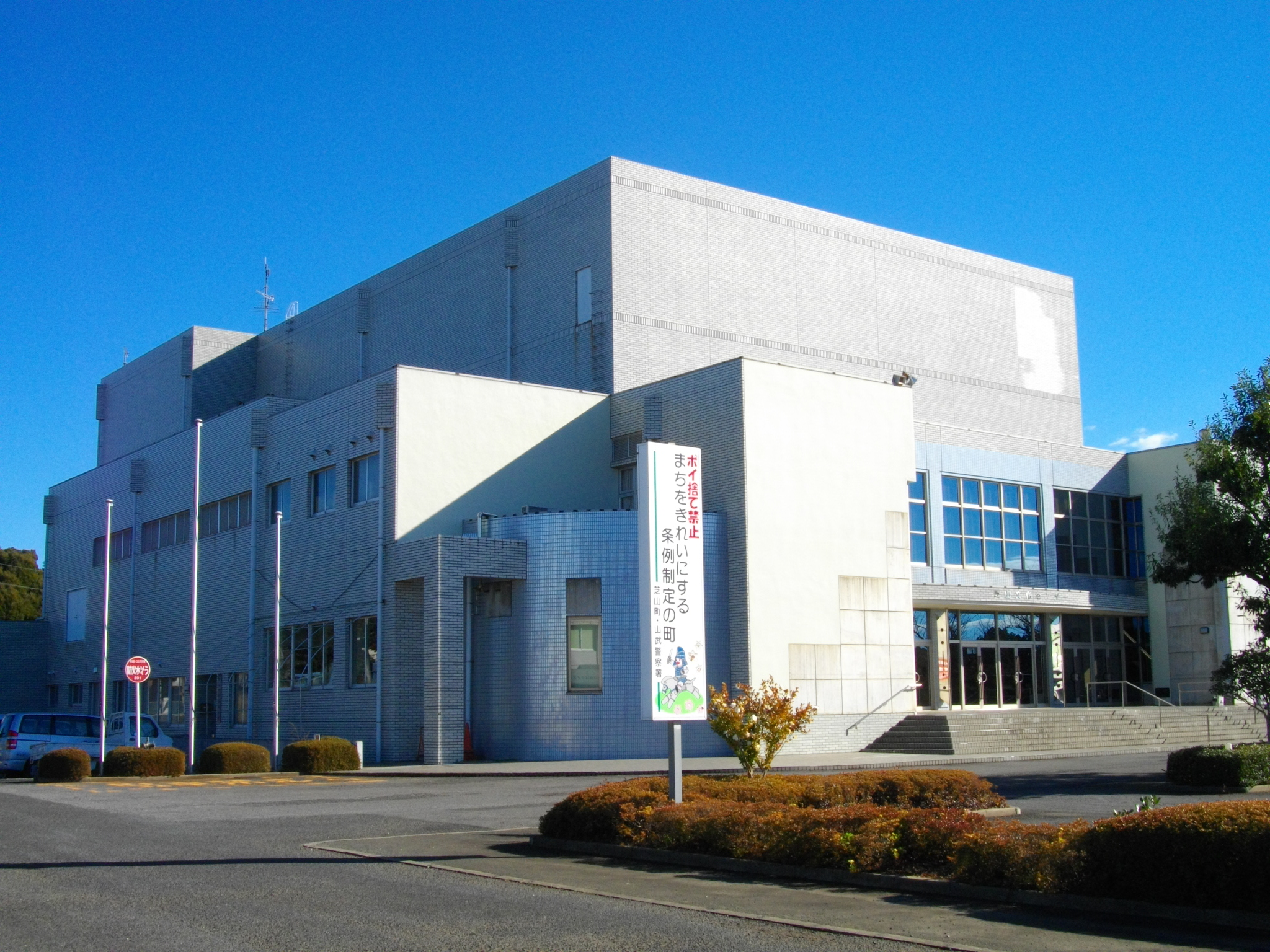 Shibayama Cultural Center